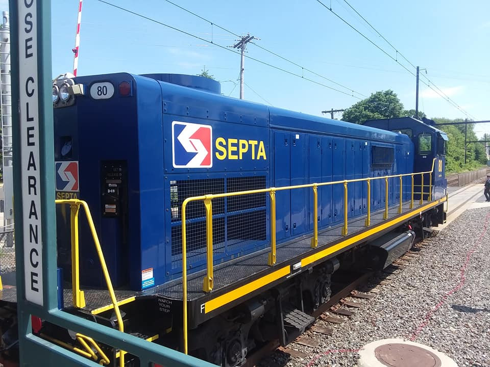 SEPTA KLW SE15B 80 at North Wales during a steam excursion.